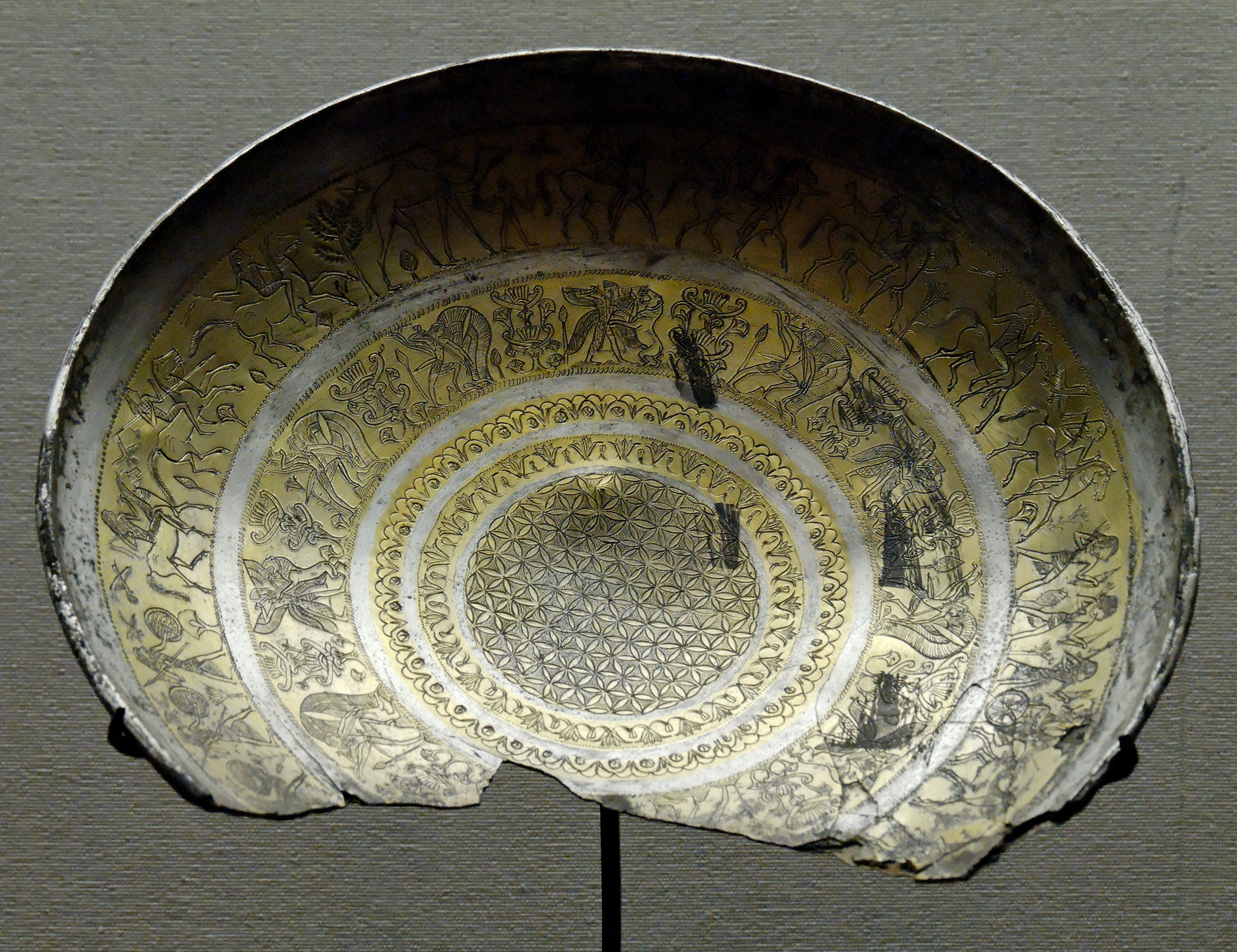 Cup with mythological scenes, a sphinx frieze and the representation of a king vanquishing his enemies. The center contains a version of the "Flower of life" geometrical pattern. Cypro-Archaic I (8th–7th centuries BC). From Idalion, Cyprus.